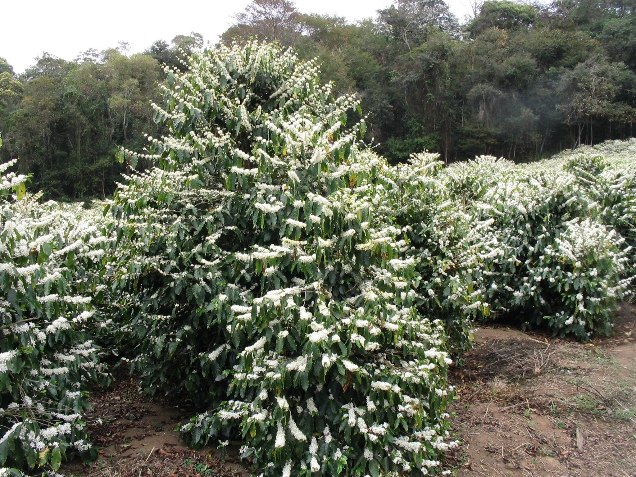 Coffea arabica, Coffee Flowers Show - Matipó City - Minas Gerais State - Brazil; this photo was taken in November-2004 by Fernando Rebêlo.